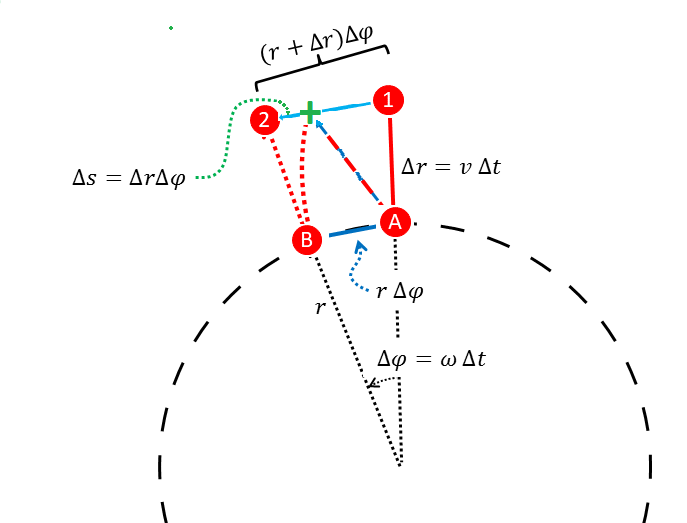 Pathways of person who throws something radially, and of target aimed at, on a turning wheel.